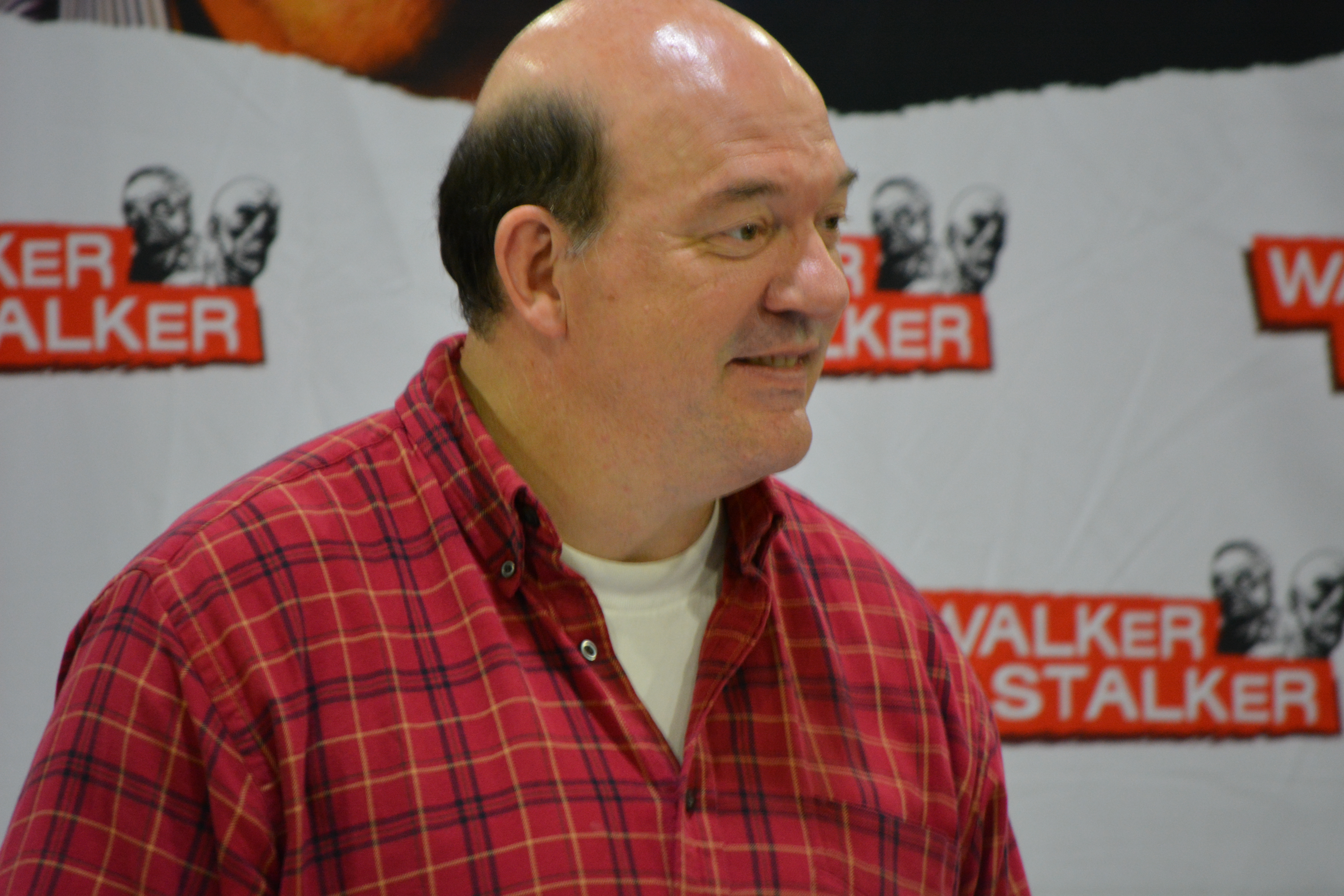 John Carroll Lynch